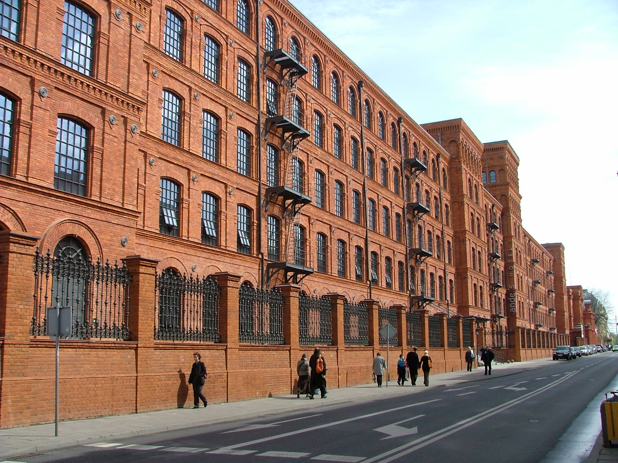 This picture was taken during the photographic wikiworkshop organized by the Association of Wikimedia Poland. All pictures of the workshop you can see in the category wikiwarsztaty 2010. Manufaktura